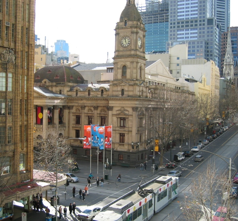 Looking east up Collins Street, Melbourne with Melbourne Town Hall on the right hand side. Photo taken by User:Adz on 11 July 2005